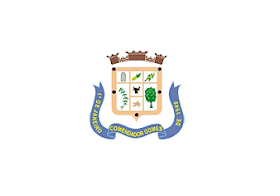 Flags of the city of Comendador Gomes, Minas Gerais, Brazil.